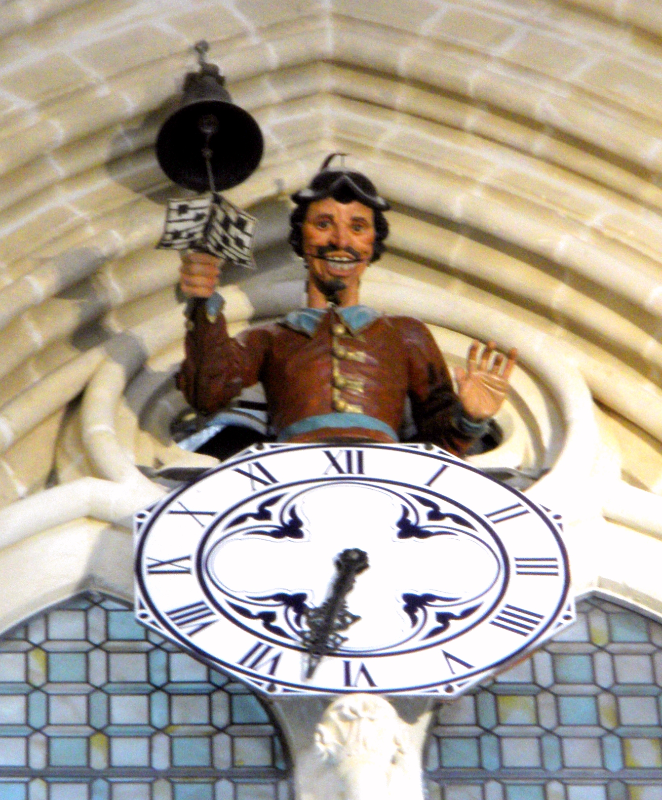 Papamoscas de la Catedral de Burgos